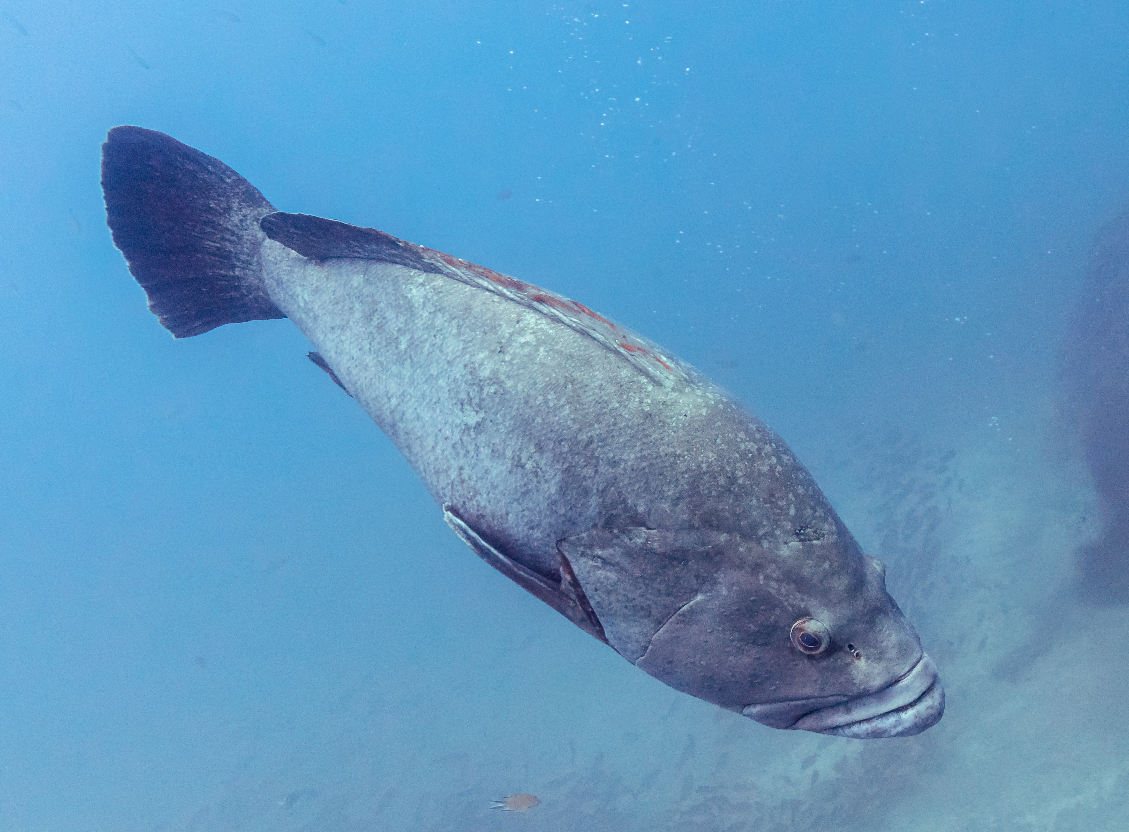 Exemplar of an adult dusky grouper (Epinephelus marginatus) of about 150 centimetres (59 in) length and 60 kilograms (130 lb) heavy seen at a depth of about 25 metres (82 ft), Garajau Marine Nature Reserve, Madeira, Portugal